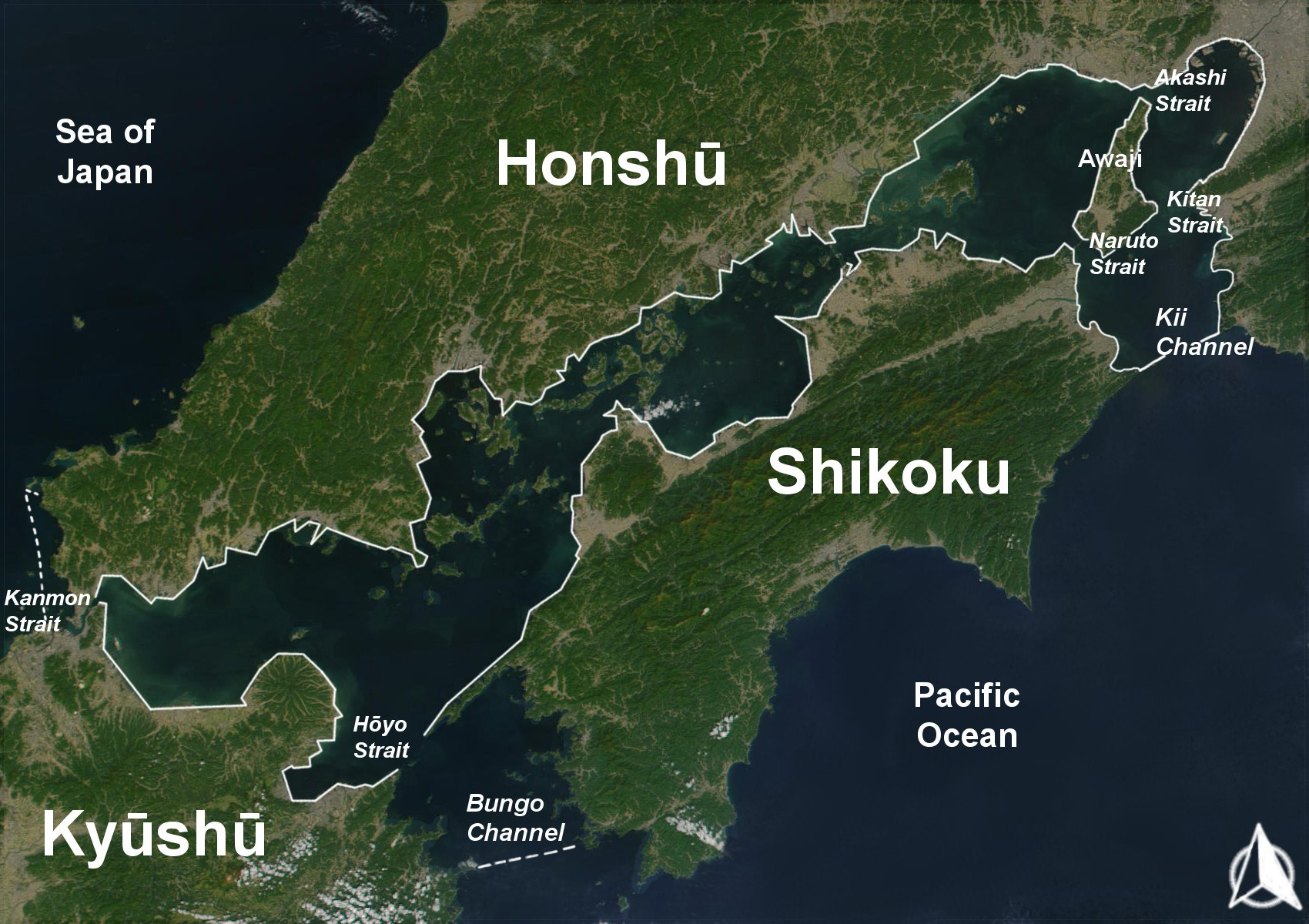 The Range of the Seto Inland Sea by the Territorial Sea Law (領海及び接続水域に関する法律) is 19,700 km2 (solid lines). Reference: Seto_Inland_Sea01.png . The Range of the Seto Inland Sea according to the Setouchi Law and the Setouchi Law Enforcement Order is 21,827 km2 (solid lines and dashed lines). Reference: Seto_Inland_Sea02.png.